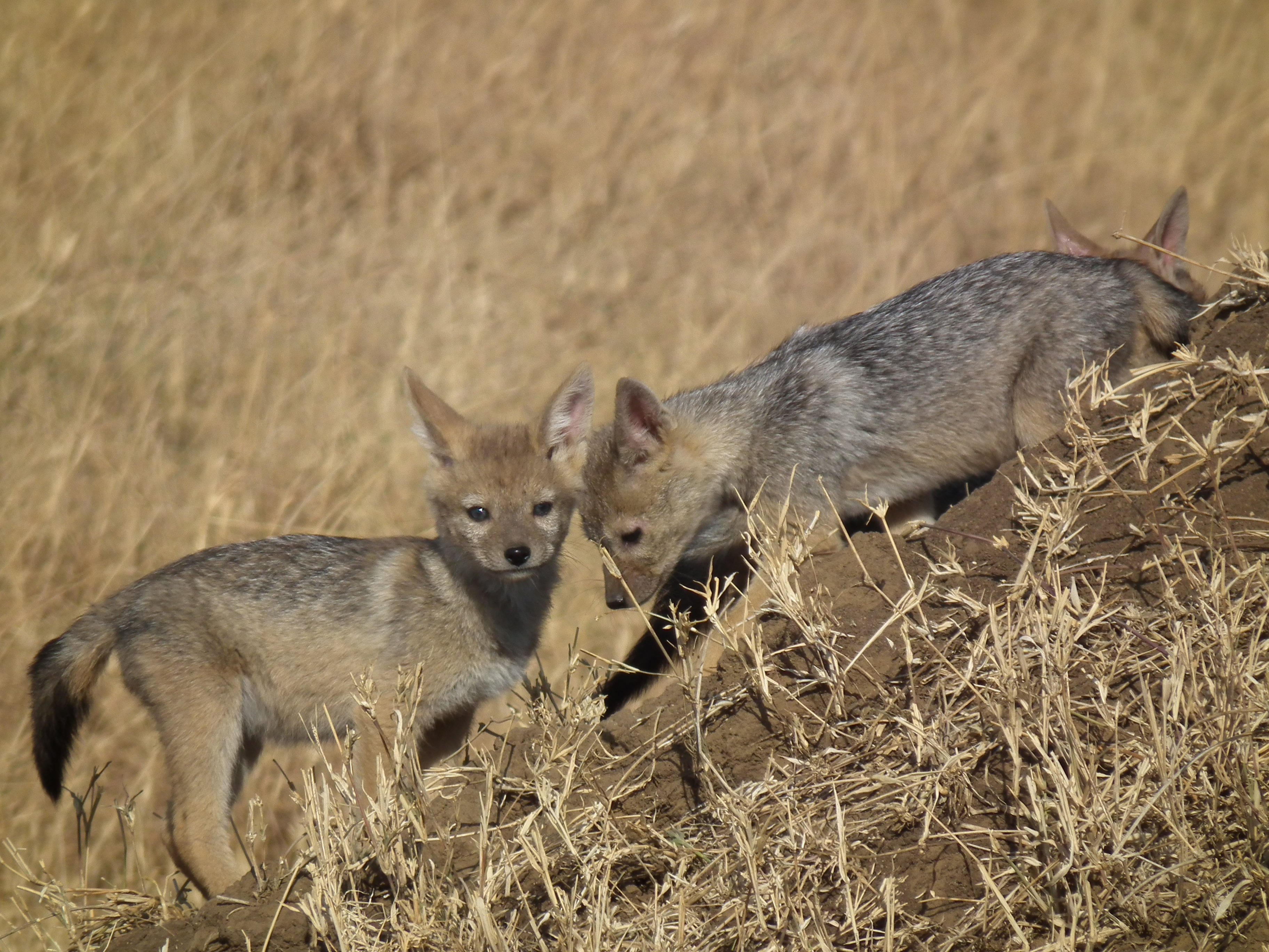 Black-backed Jackal, Canis mesomelas, picture taken in Tanzania